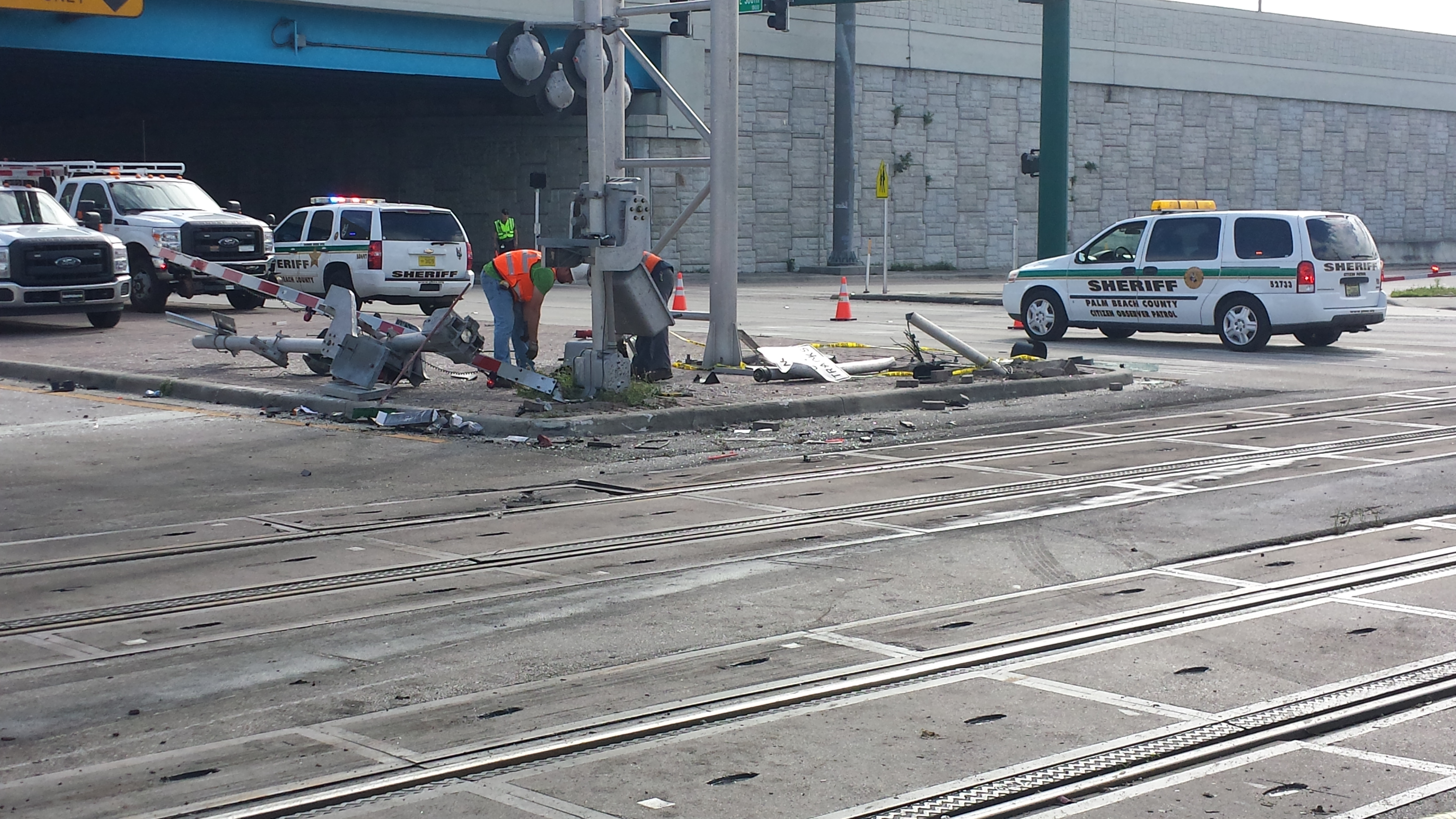 Do No Stop On Tracks sign with a amber flasher and a crossing signal gets trashed after TriRail P604 nailed a garbage truck at this crossing. The line for the whole day was wrecked with delays.